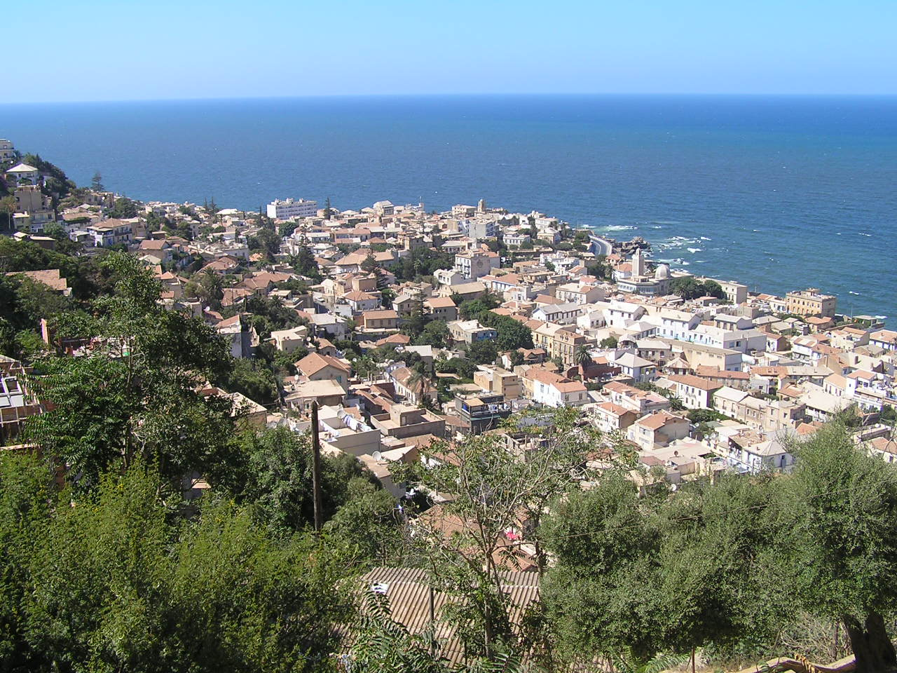 View of Algiers, Algeria.2005-08-03_16h20_35